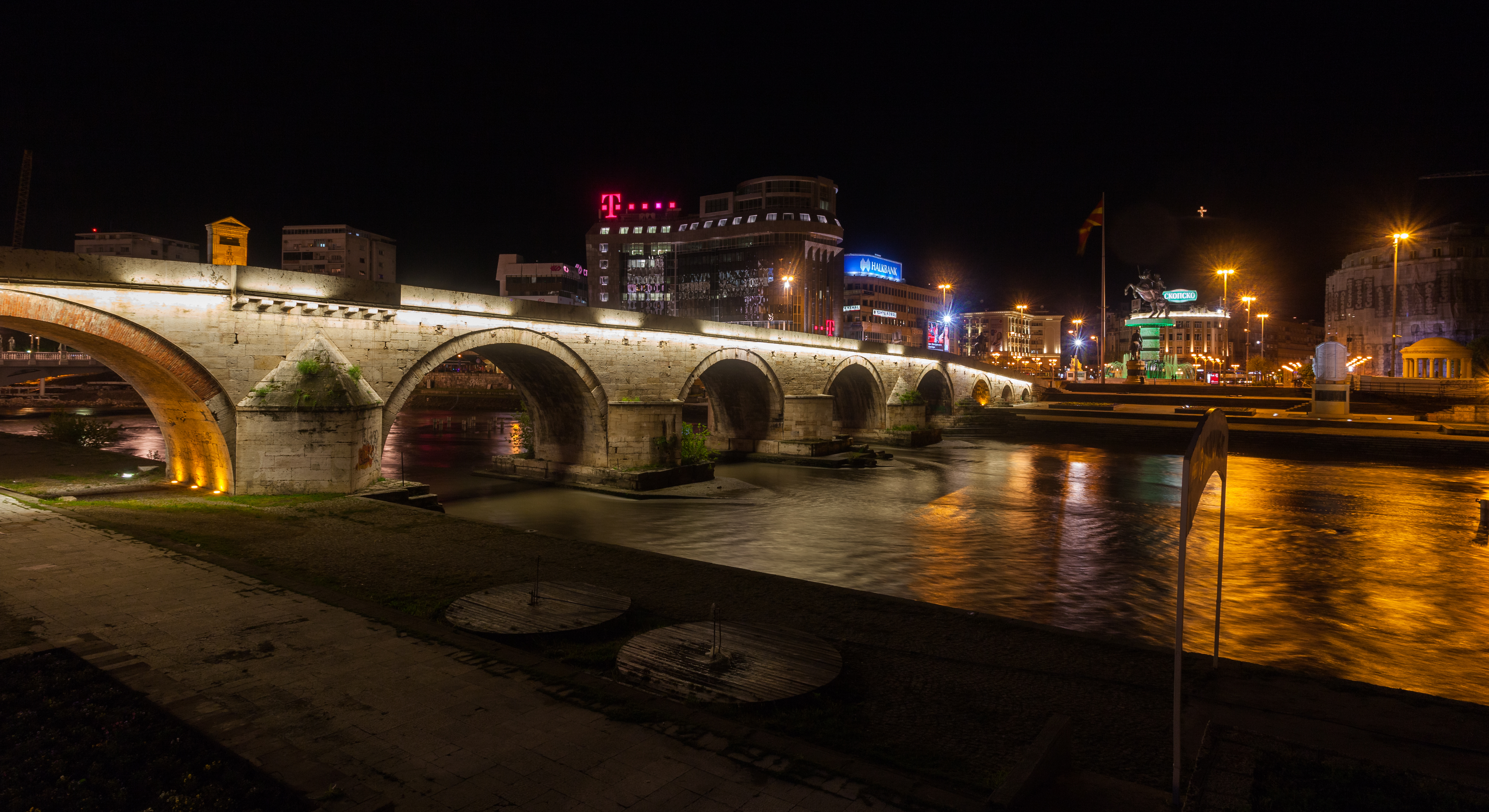 Stone Bridge, Skopje, Republic of Macedonia